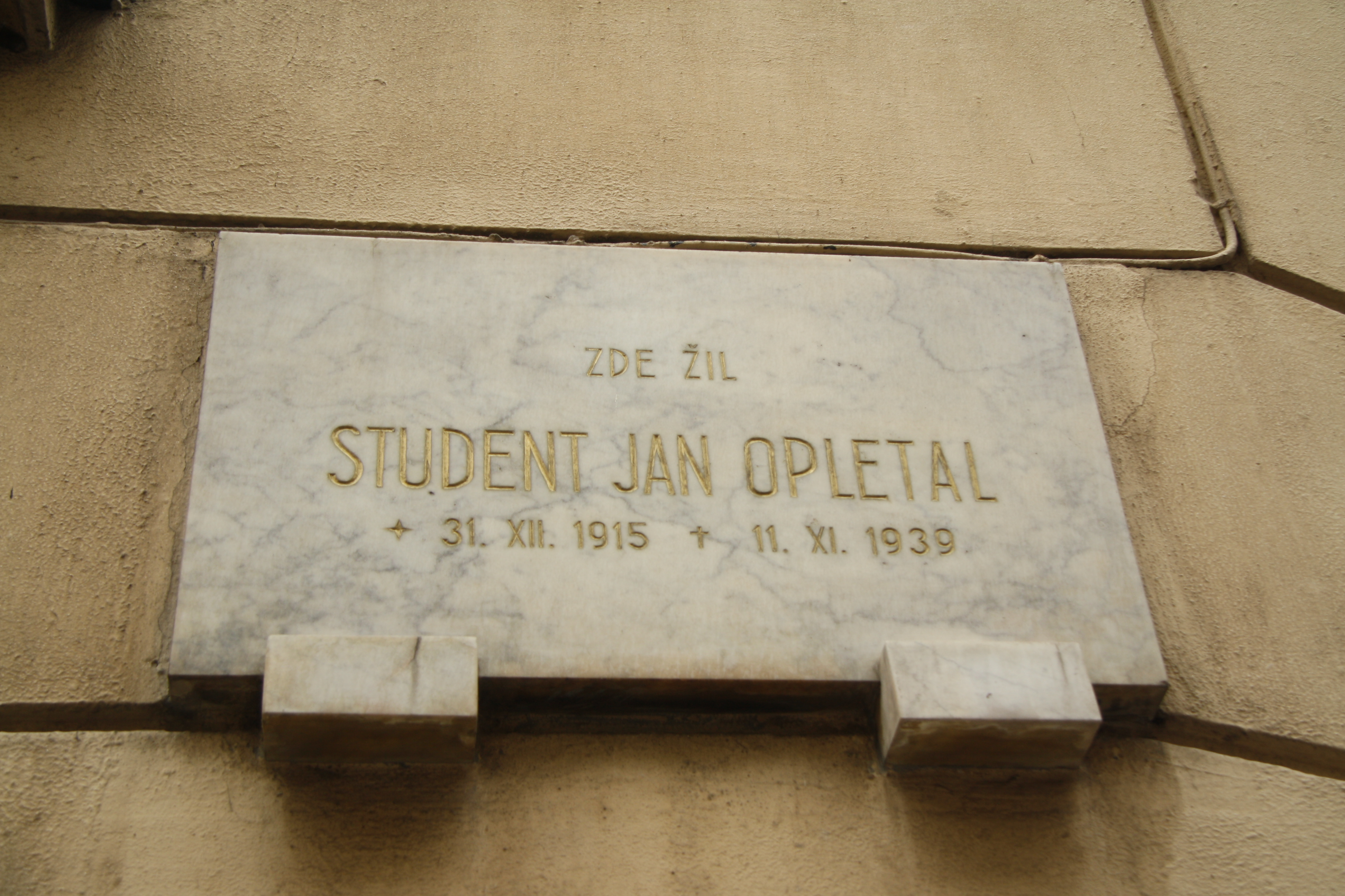 Plaque of Jan Opletal at Jenštejnská 1 at Jenštejnská street in Nové Město, Prague.